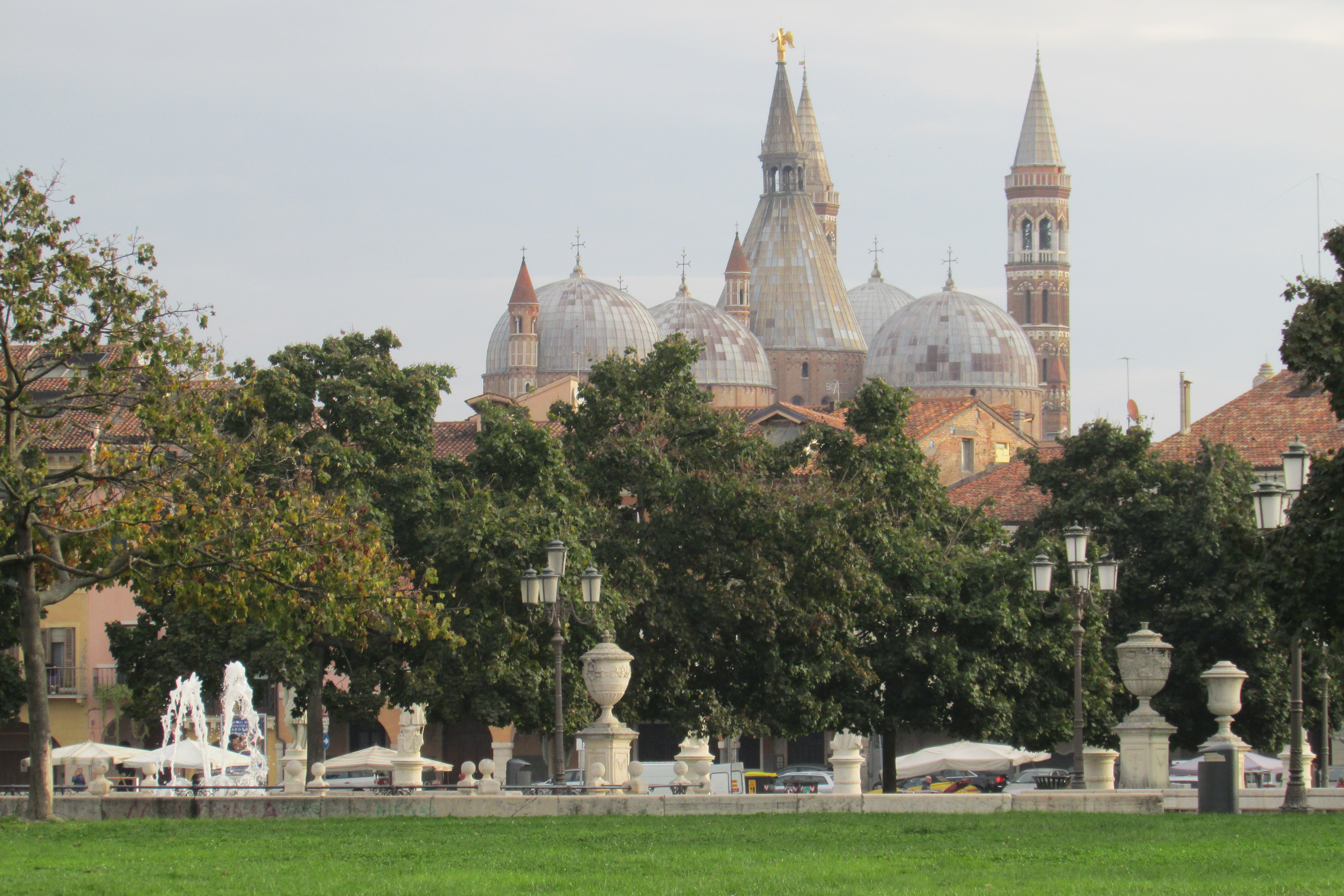 Sant'Antonio (Padua) from the Prato della Valle.